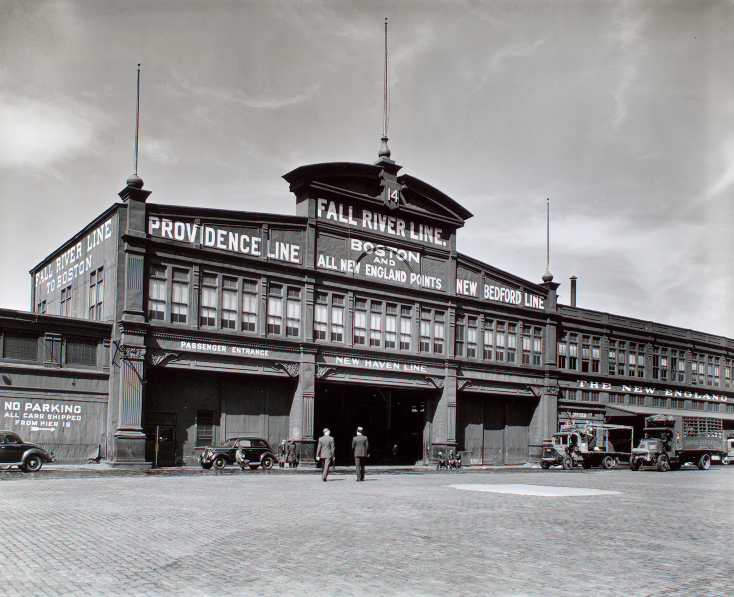 Code: II.D.11.c.; II.A.3. Depot for the Fall River Line and other New England lines advertised on side of building. Citation/Reference: CNY# 292